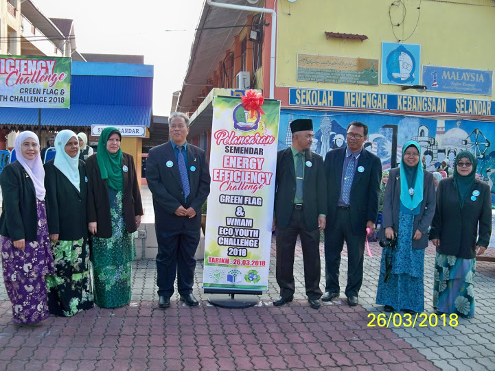 Cekap tenaga 4